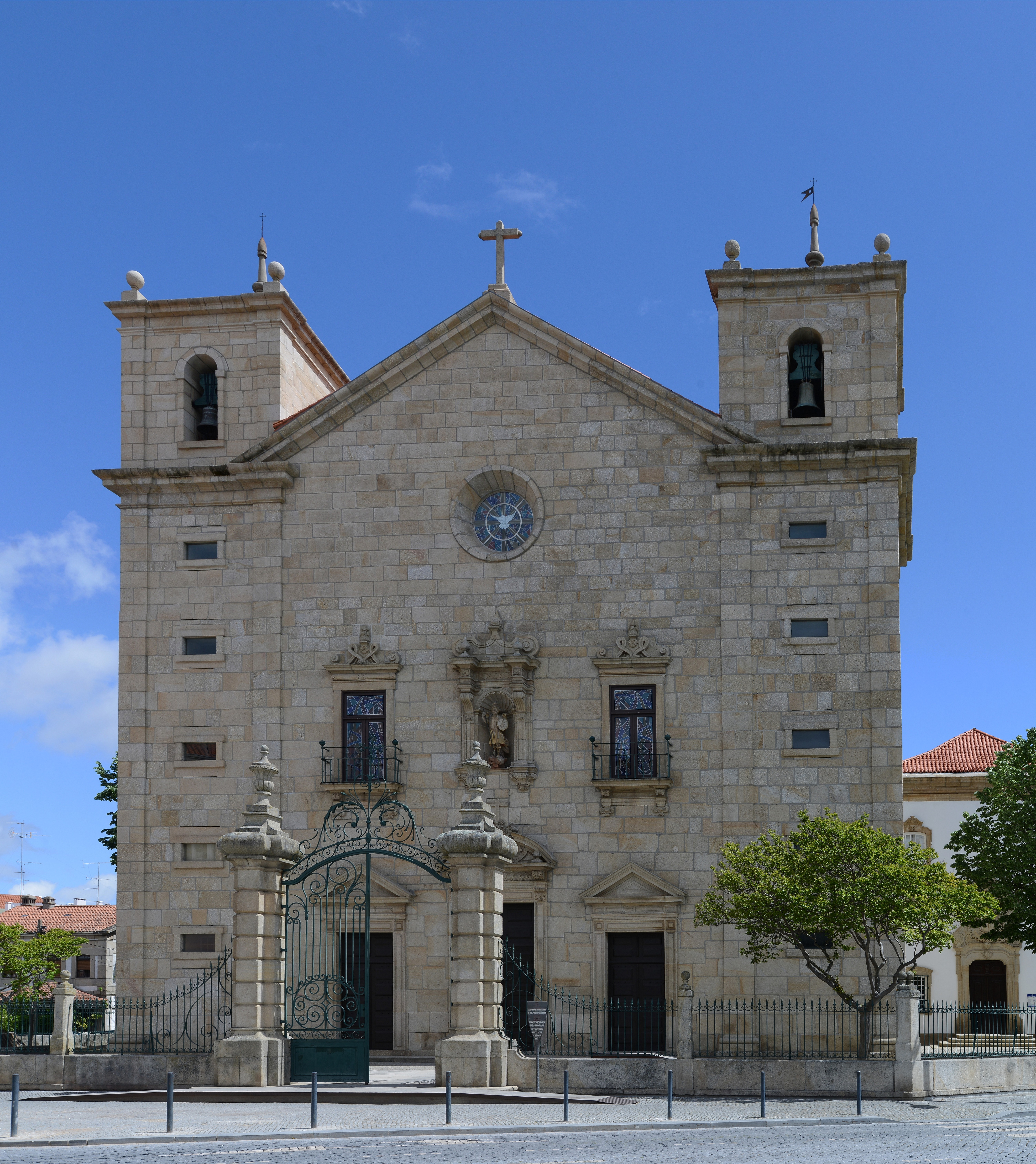 The mother church of Castelo Branco, or Church of São Miguel, Portugal